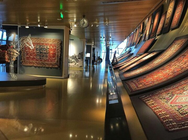 Xalça